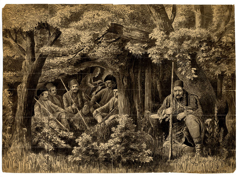 Hajduci, V. Titelbah, 1900